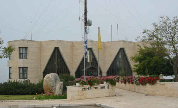 The Gush Etzion Regional Council headquarters.